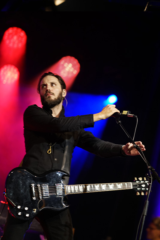 Jørgen Munkeby in Aarhus, Denmark 2018 playing with Blood, Sweat, Drum + Bass